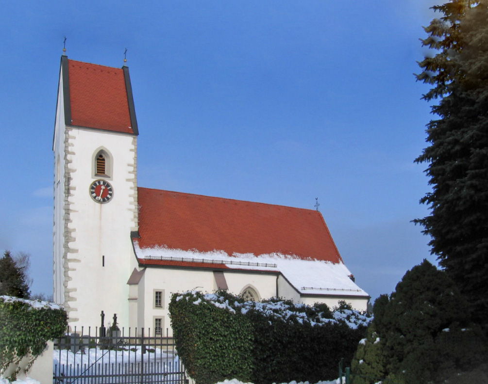 Pasching, gothic church, built ca. 1500